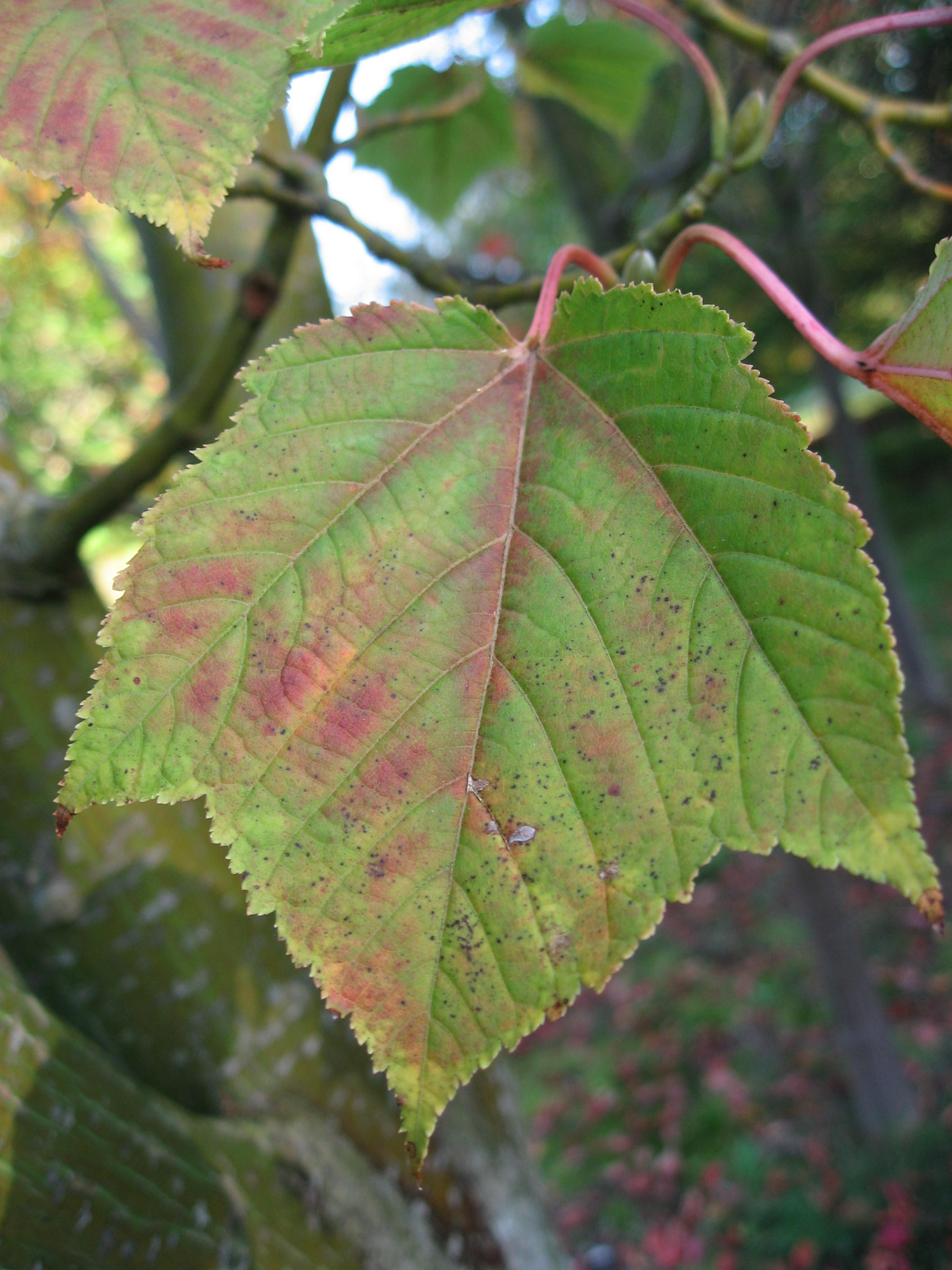 Acer rufinerve in Arboretum de La Roche-Guyon Map: 49° 5' 56" N 1° 38' 23" E